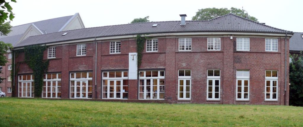 Kultur Ruhr GmbH This panoramic image was created with Autostitch. Stitched images may differ from reality.